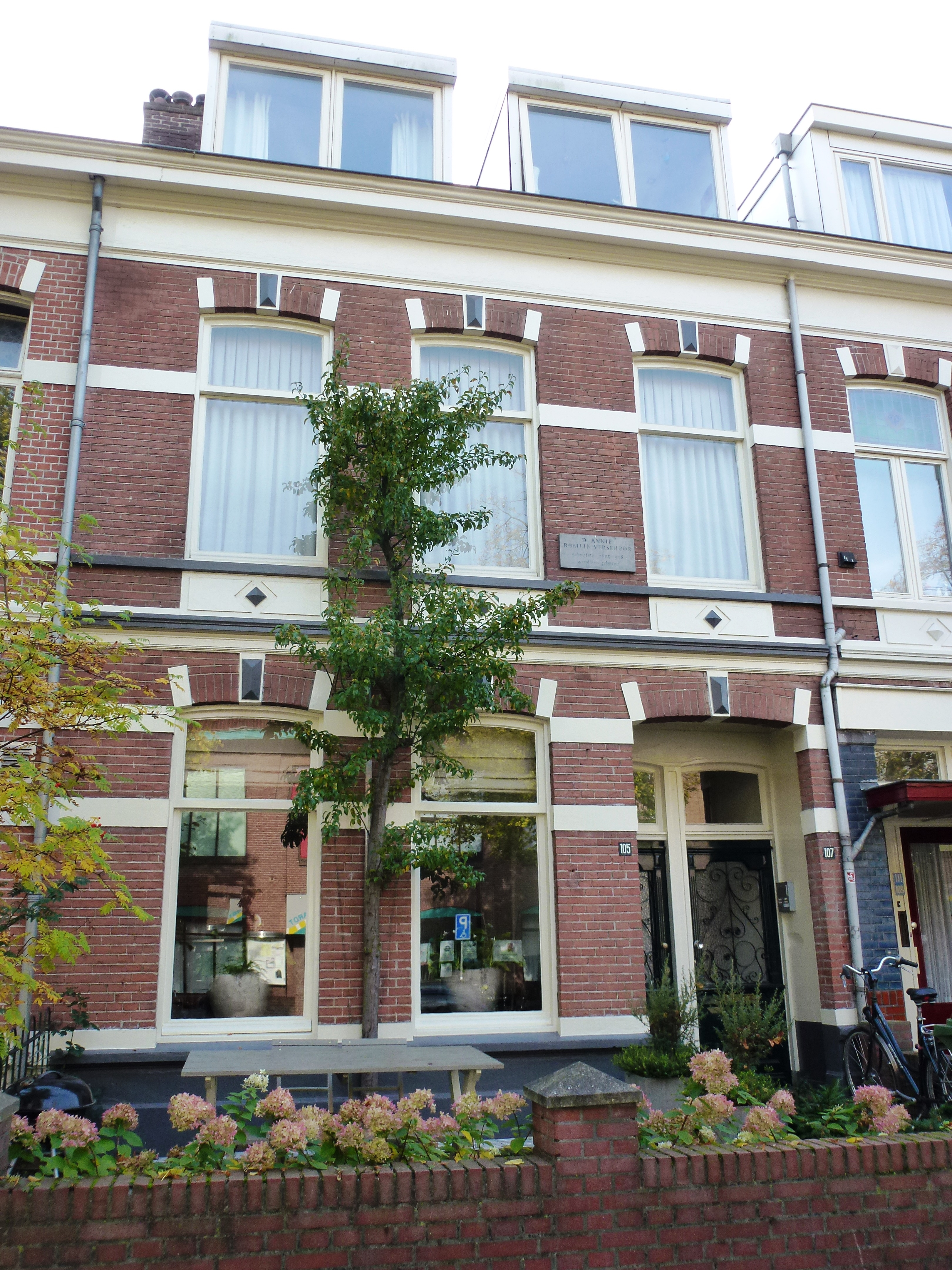 Nijmegen Burghardt van den Berghstraat 107 geboortehuis A.Romein-Verschoor